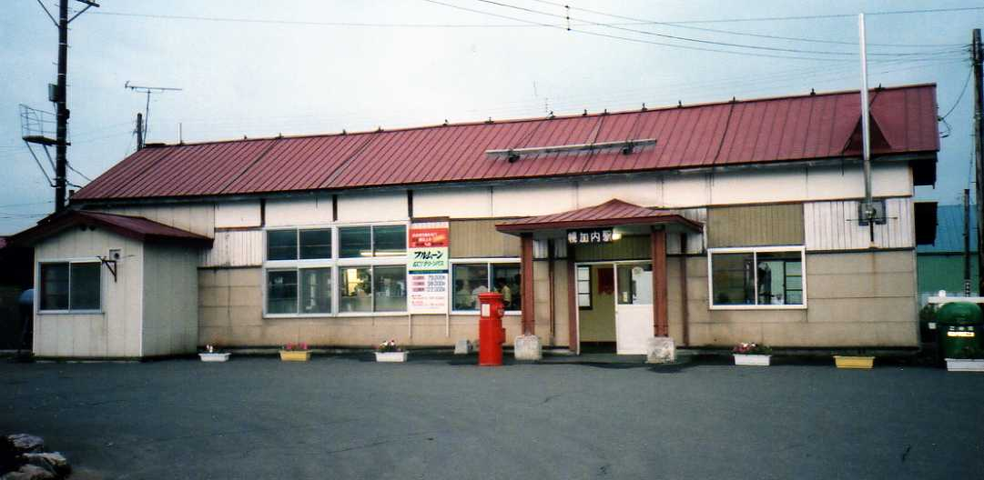 Horokanai Sta.